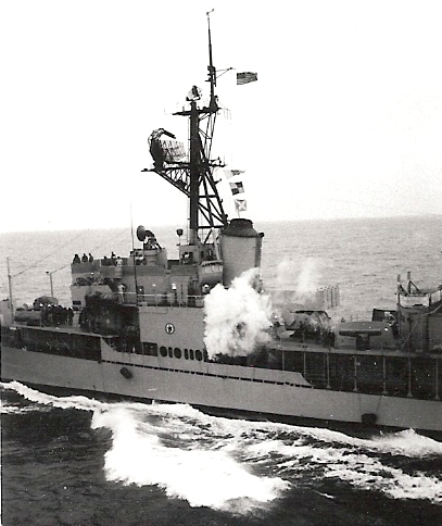 During the Vietnam war era, the U.S. Navy destroyer USS Higbee (DD-806) had a steam locomotive whistle attached to a port side steam fitting on the main deck amidships. The whistle was used to salute the providing ship following underway replenishment. The plume of steam marks the whistle location in this salute following refueling from the guided missile cruiser USS Chicago (CG-11), circa in 1970.